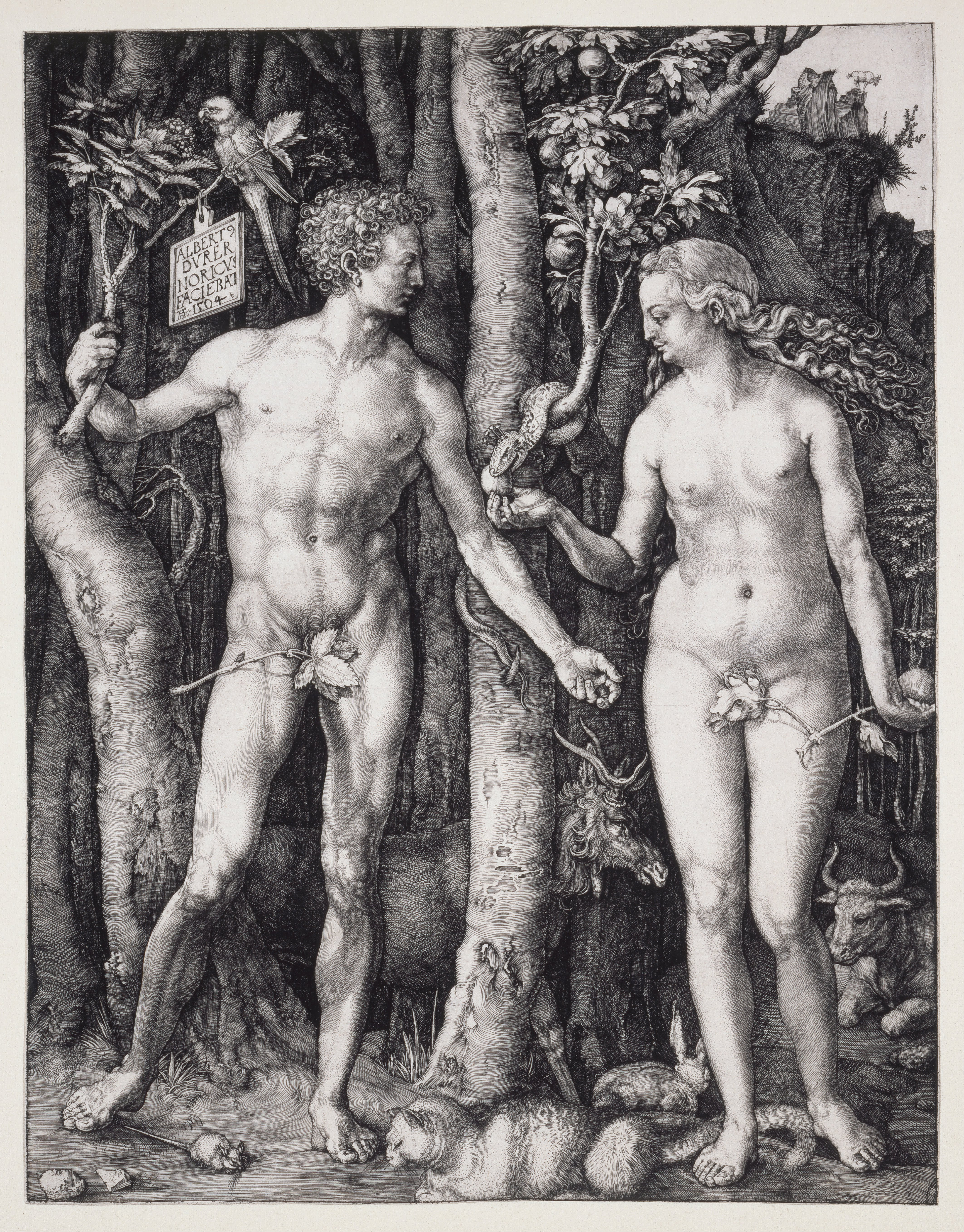 Adam and Eve standing on either side of the tree of knowledge with the serpent. In the foreground a cat, an elk, an ox.